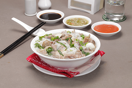 Best food in town!